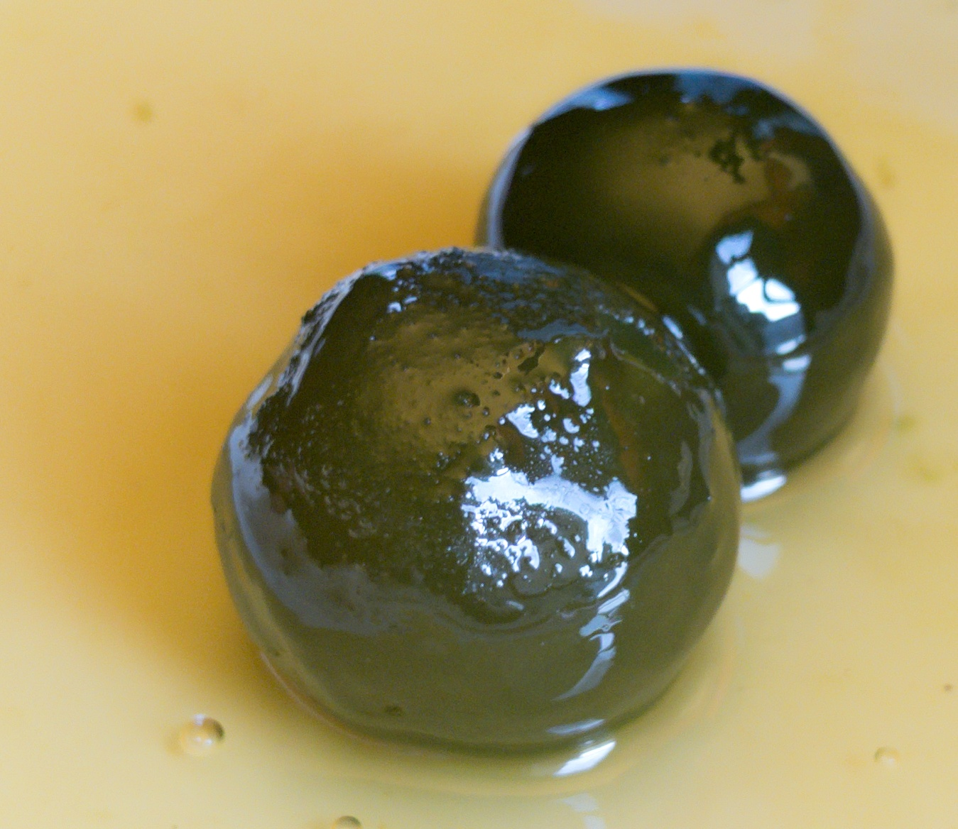 Unripe oranges preserved in syrup for spoon sweets.